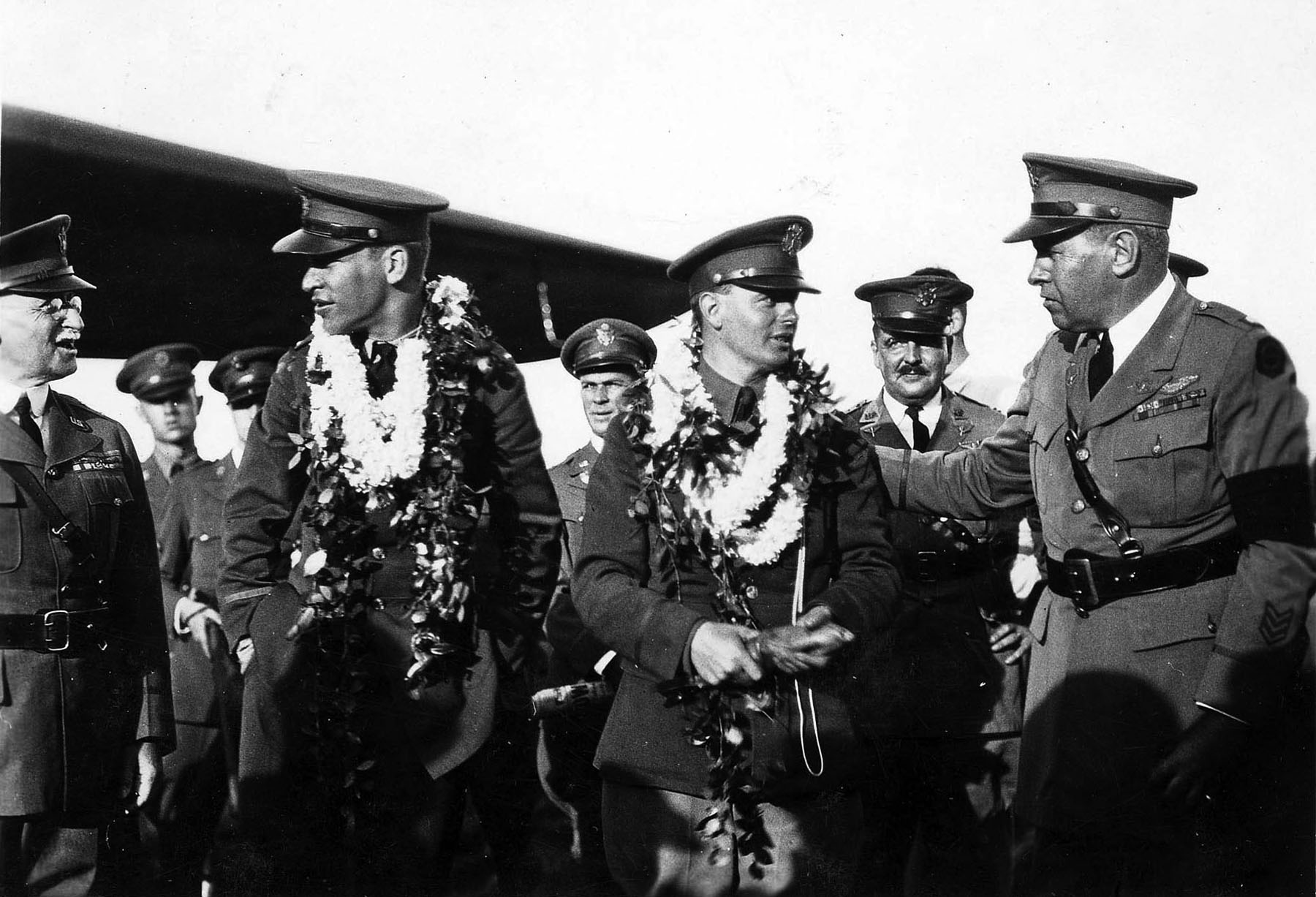 Atlantic-Fokker C-2 Bird of Paradise crewmen Lts. Maitland and Hegenberger are congratulated after landing at Wheeler Field. (U.S. Air Force photo)